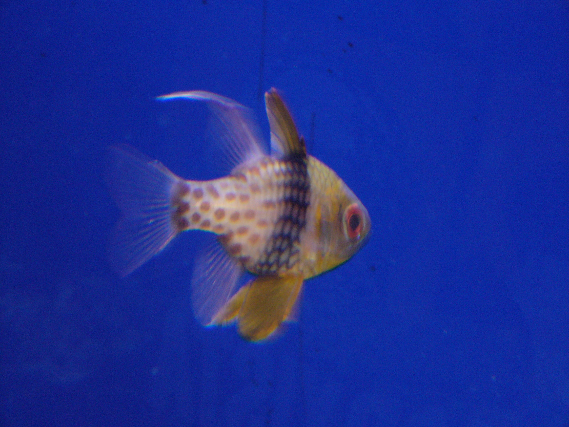 Sphaeramia nemanoptera (Pajama / spotted cardinal) in Sala Humboldt of Aquarium Finisterrae (House of the Fishes), in Corunna, Galicia, Spain.